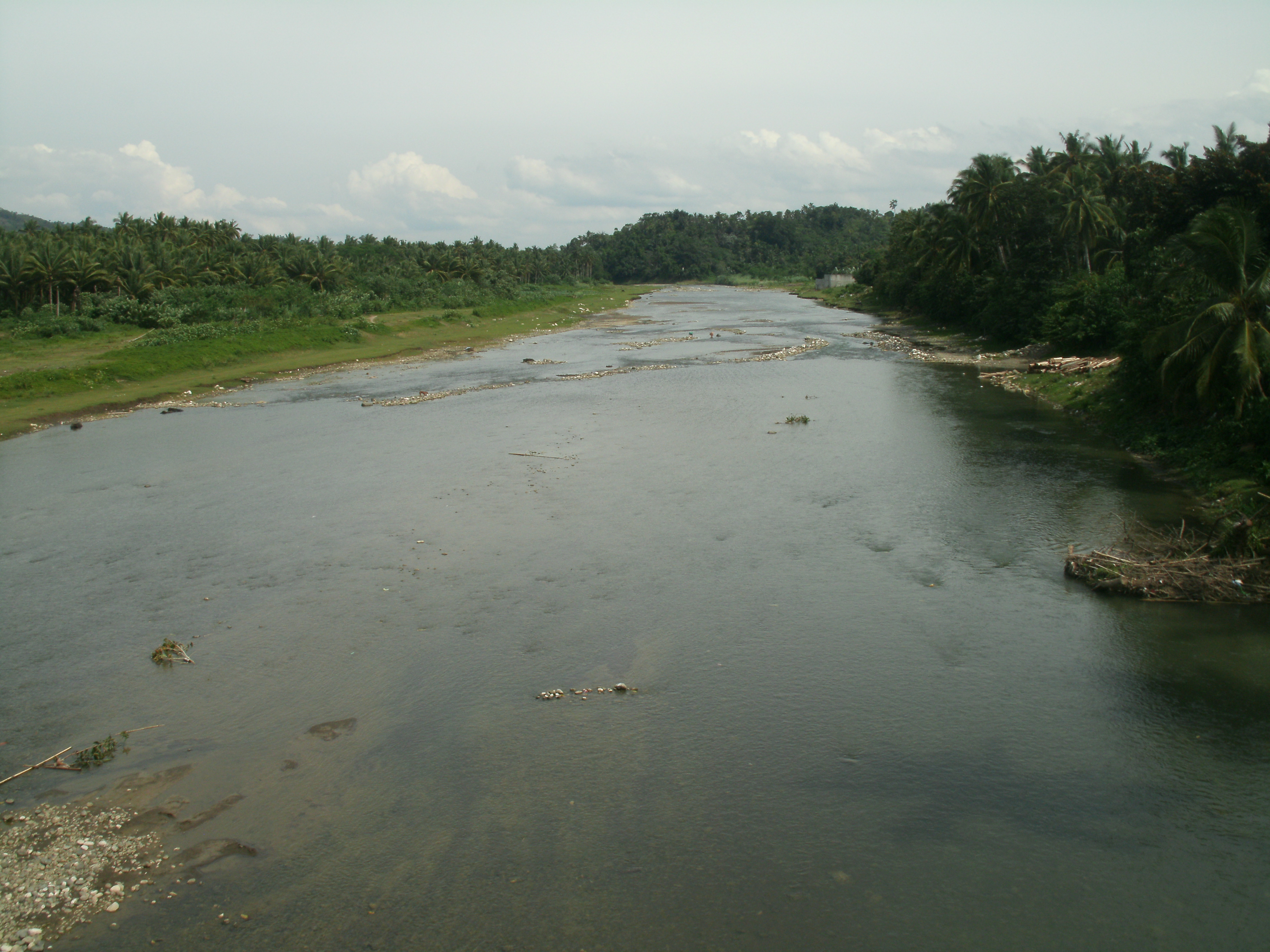 Wawa River, the largest and biggest river in Sibagat